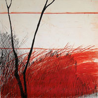 small image of a print by Johannes Haider